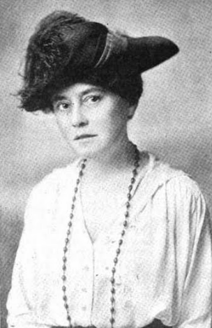 "The Woman Citizen" (February 14, 1871 – November 13, 1927) American writer, journalist, editor and suffragist